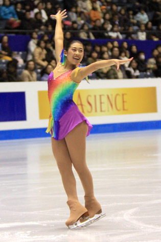 2009 Junior Grand Prix of Figure Skating Final - Ellie Kawamura